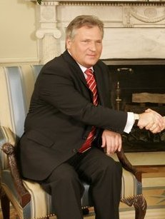 Polish President Aleksander Kwasniewski at a visit to the White House, February 2005.